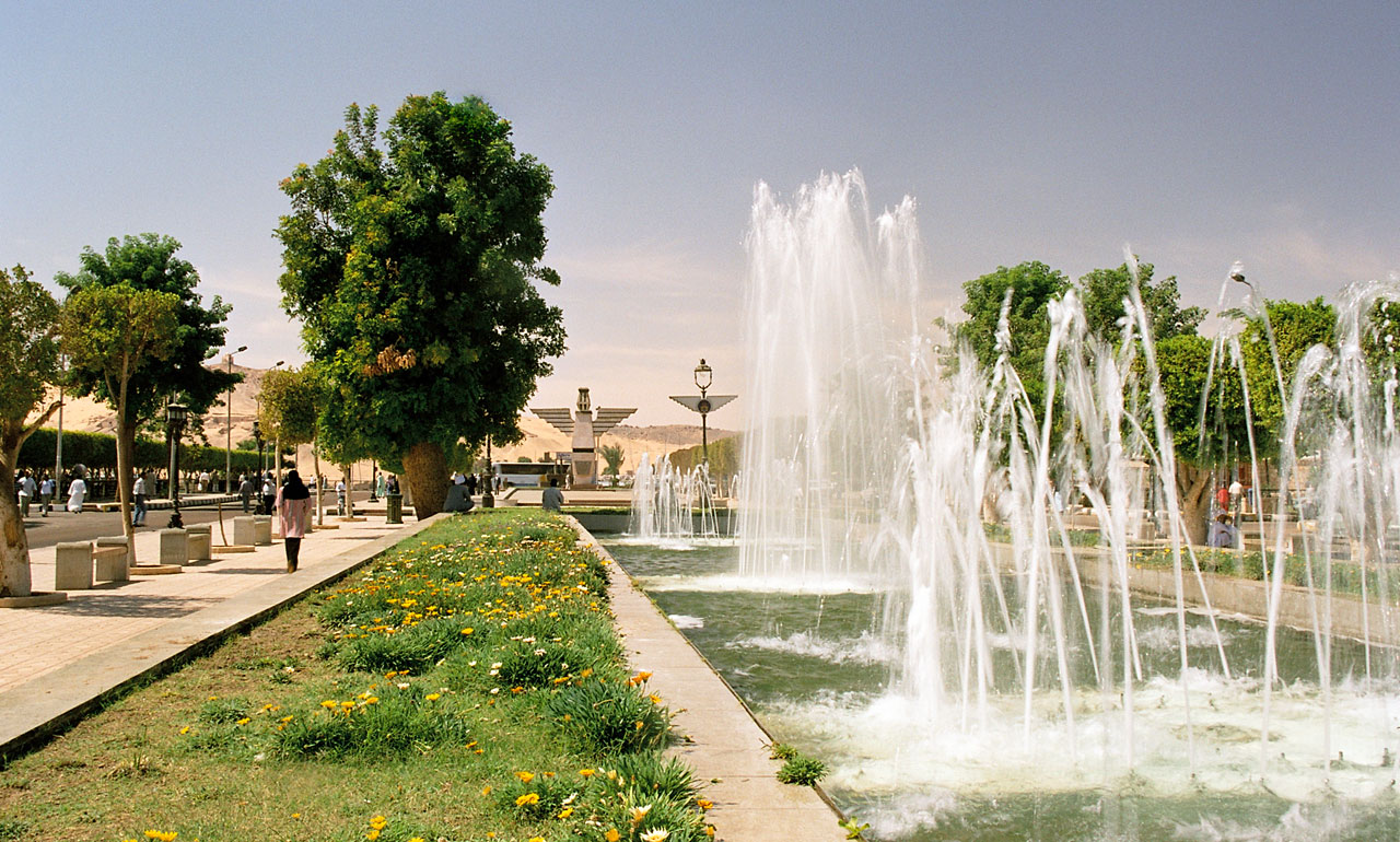 View along one of the main streets in Aswan, Egypt. The street with a park and fountains connects the railway station and Nile.